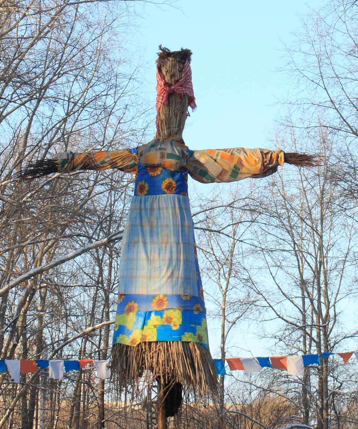 Quinquagesima